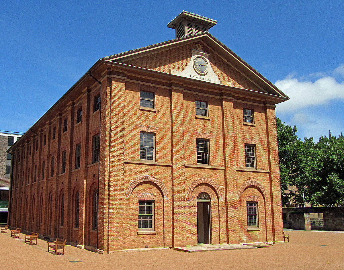 Hyde Park Barracks, Sydney